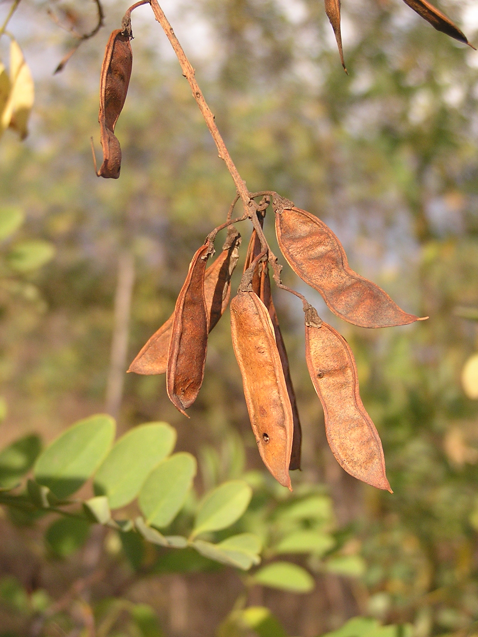 Robinia pseudoacacia fruit